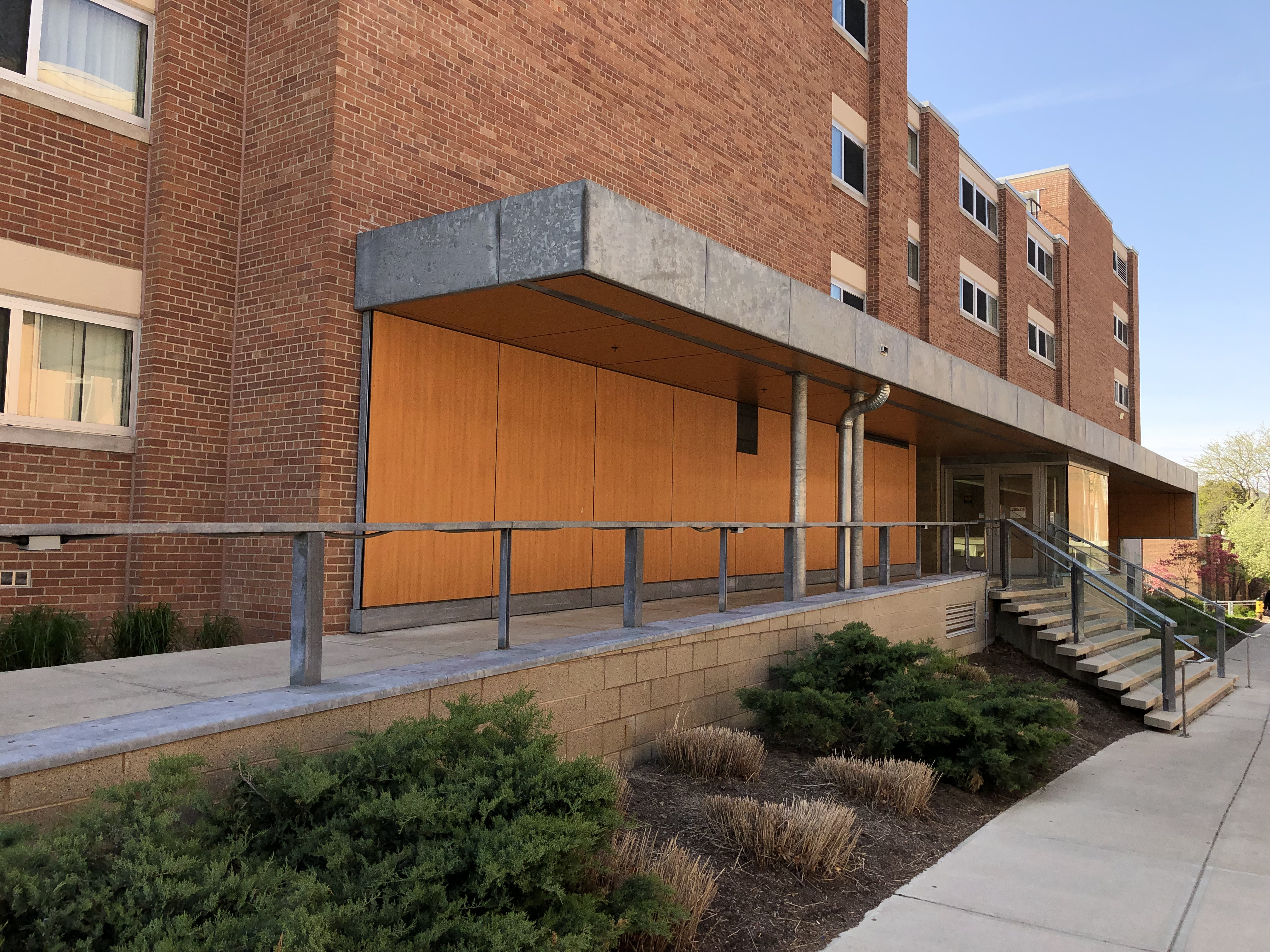 McDonald Hall at Bowling Green State University